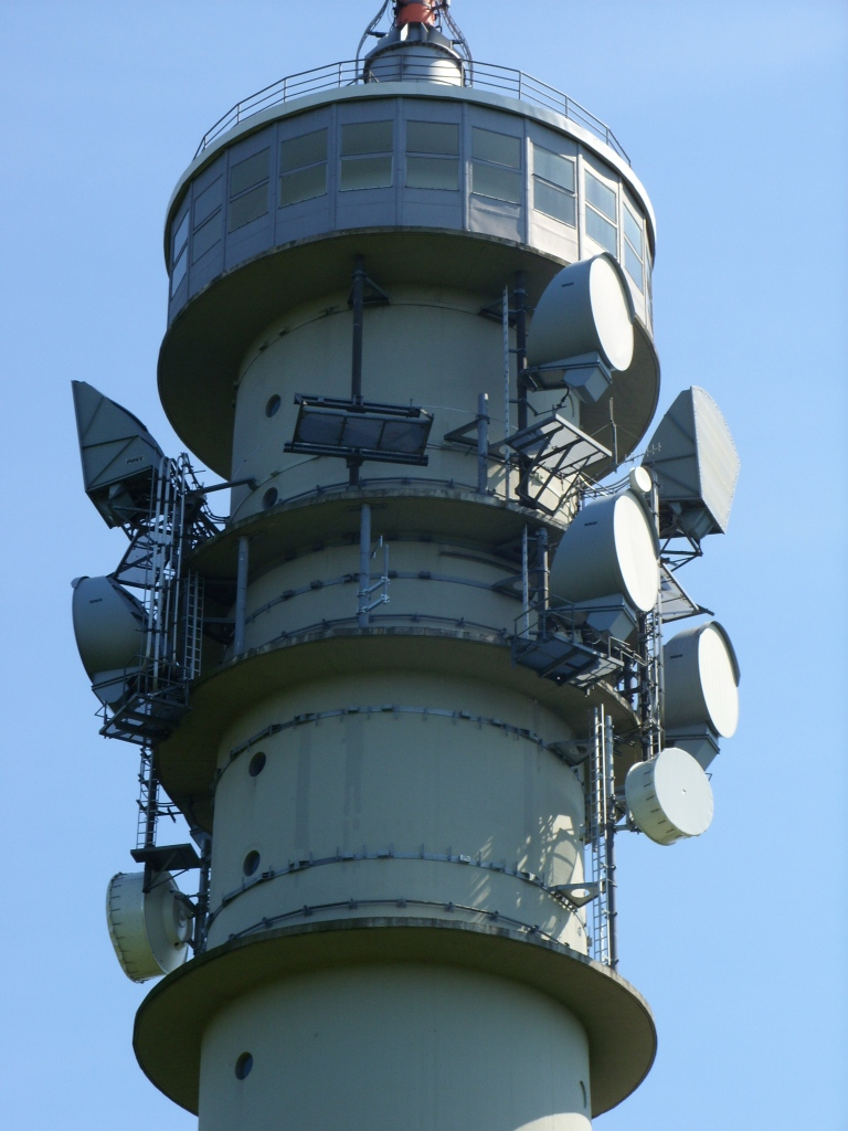 Schlemmin TV Tower, antennas and closed visitor platforms, Schlemmin, district Rostock, Mecklenburg-Vorpommern, Germany